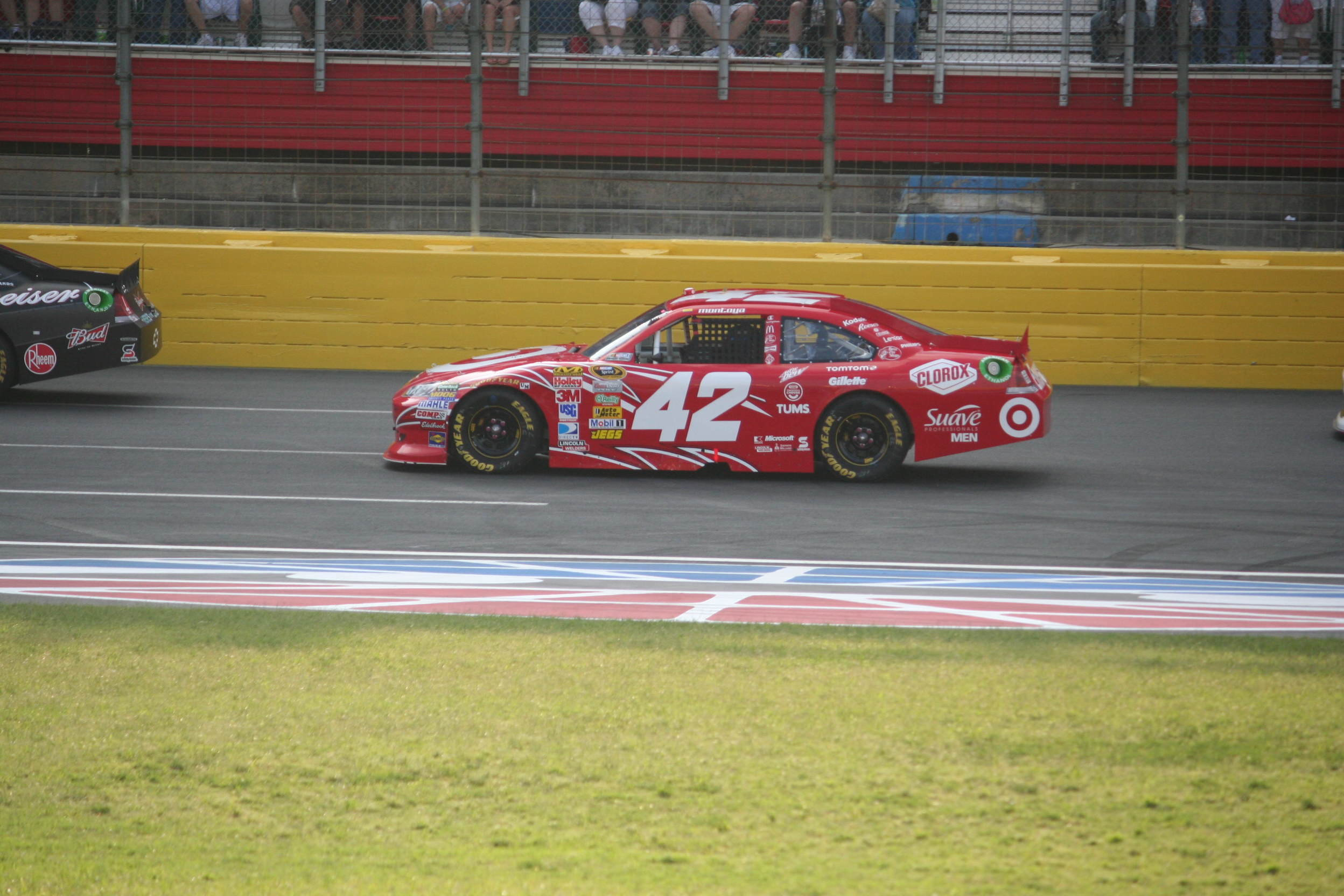 Juan Pablo Montoya's race car during the 2011 Coca-Cola 600 at Charlotte Motor Speedway on May 29, 2011.